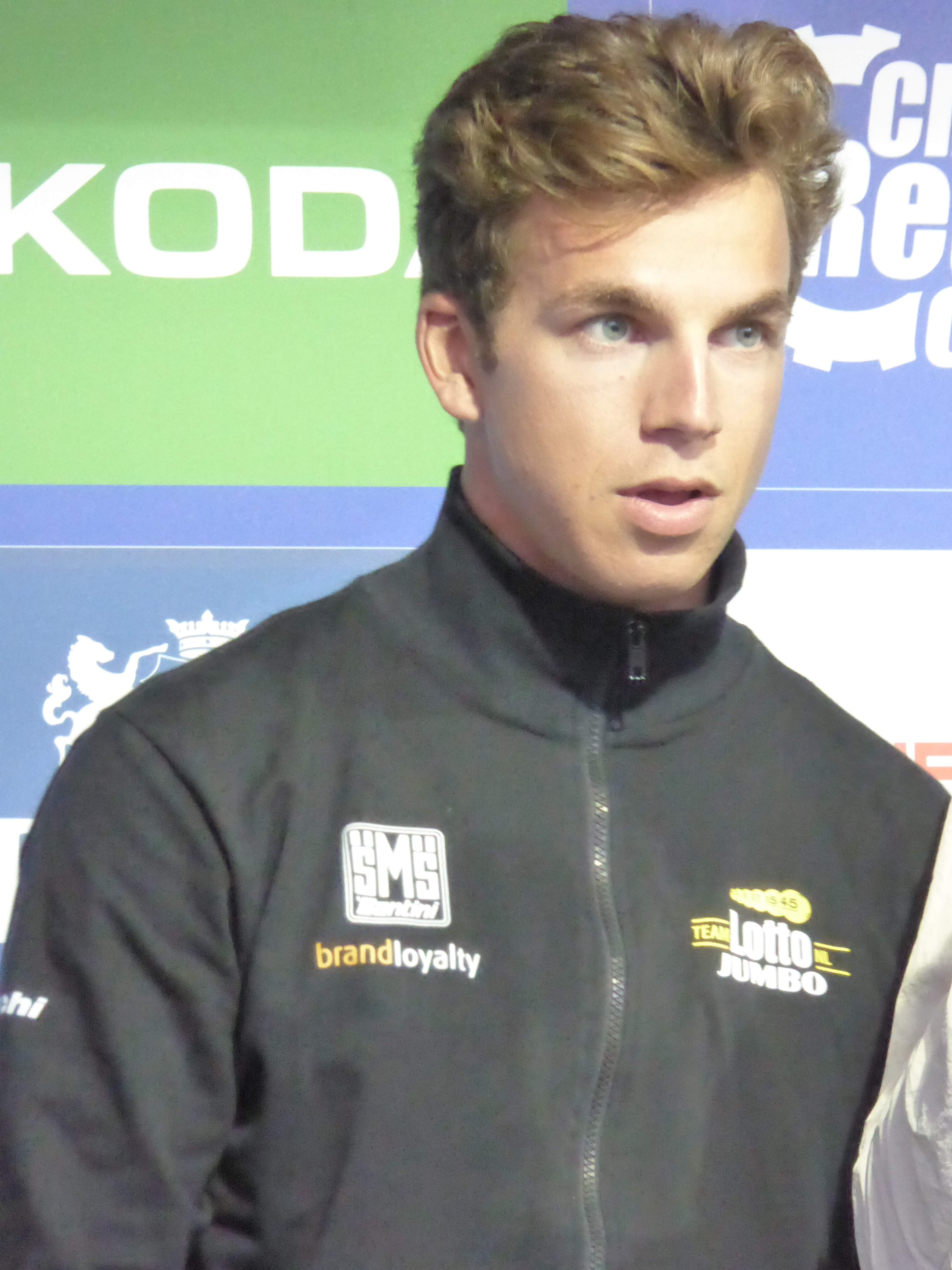 Dylan Groenewegen (Team LottoNL-Jumbo), pictured at the 2016 Tour of Britain team presentation in Glasgow on 3 September 2016.